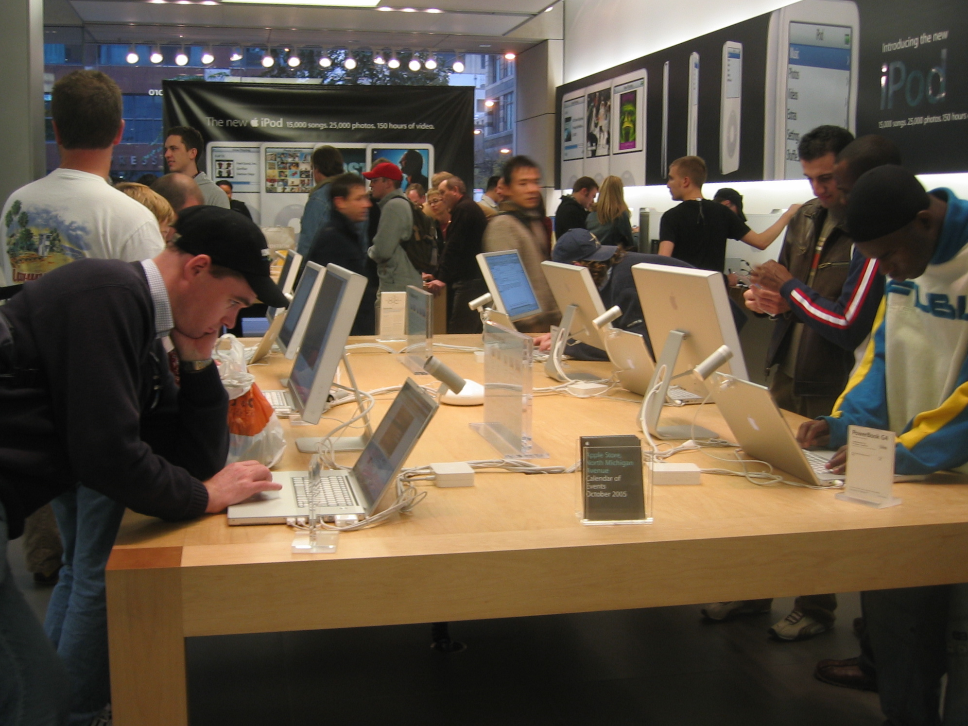 Apple Store, North Michigan Avenue, Chicago, IL